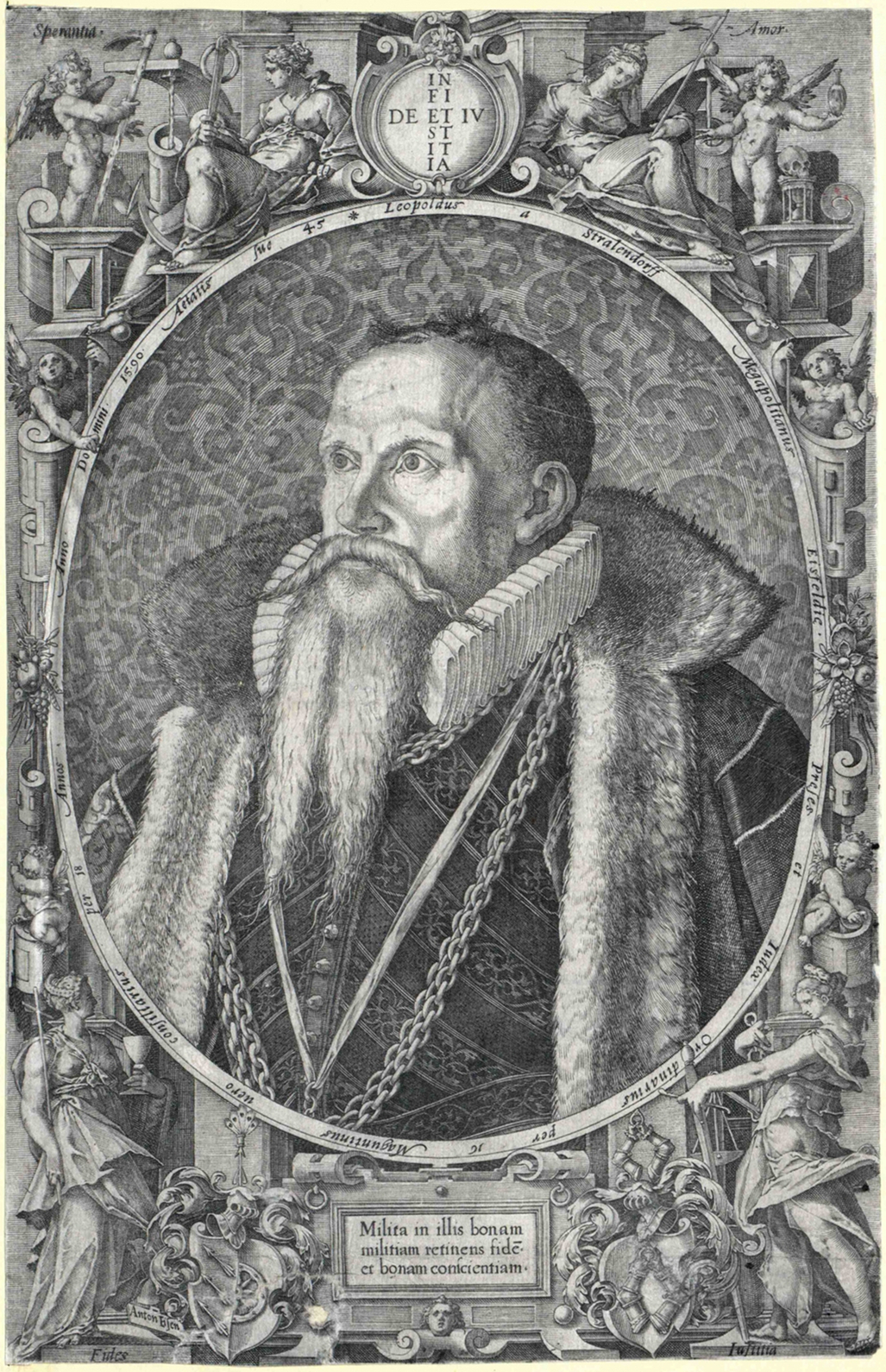 Leopold von Stralendorf (or von Stralendorff), here in Latin as Leopoldus a Stralendorff in 1590, according to frame text at the age of 45 years